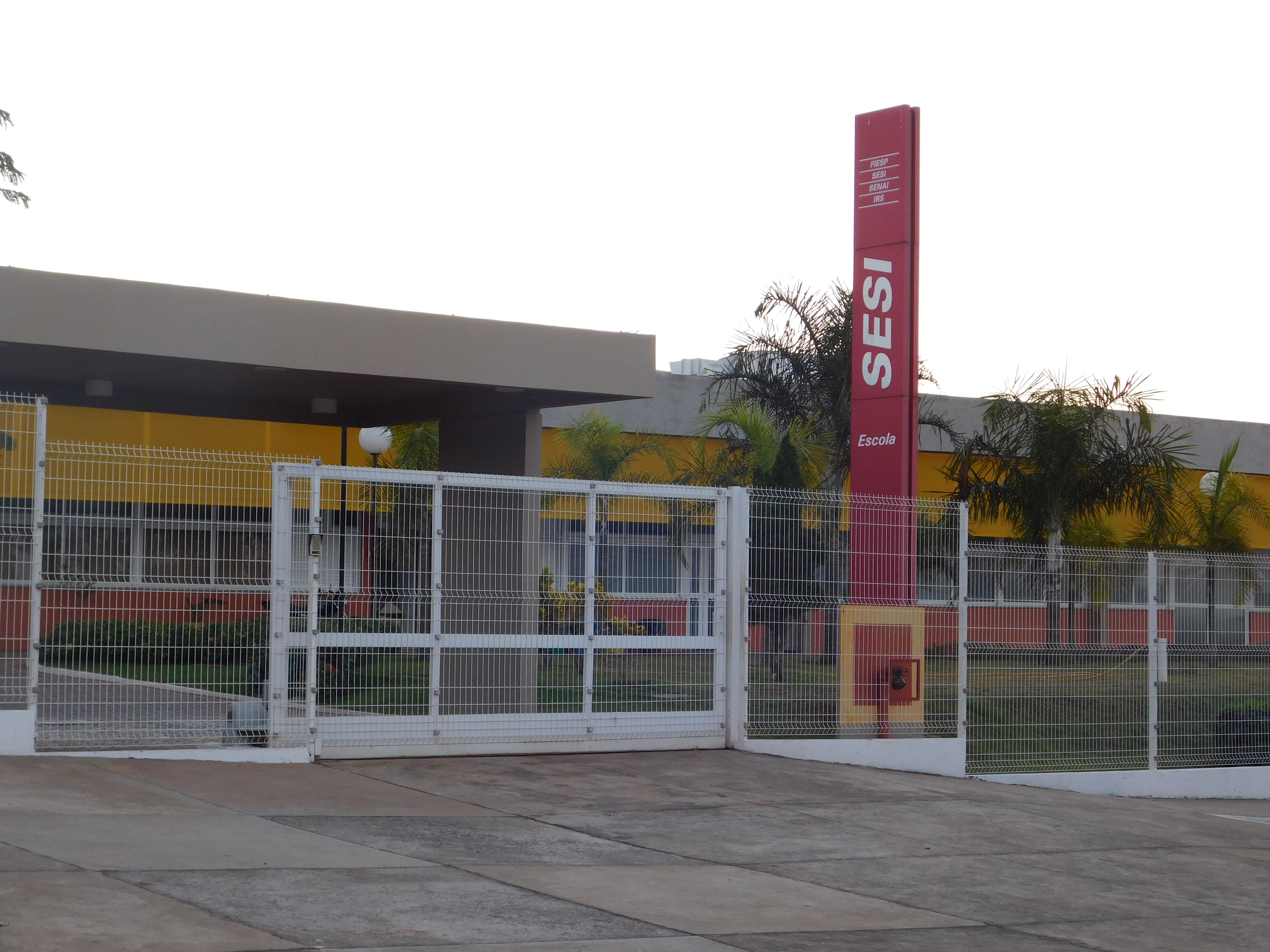 2016 June late afternoon at Descalvado, a municipality in the state of São Paulo, Brazil.